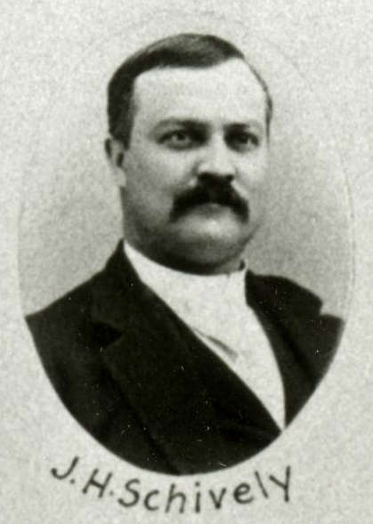 Rep J.H. Schively